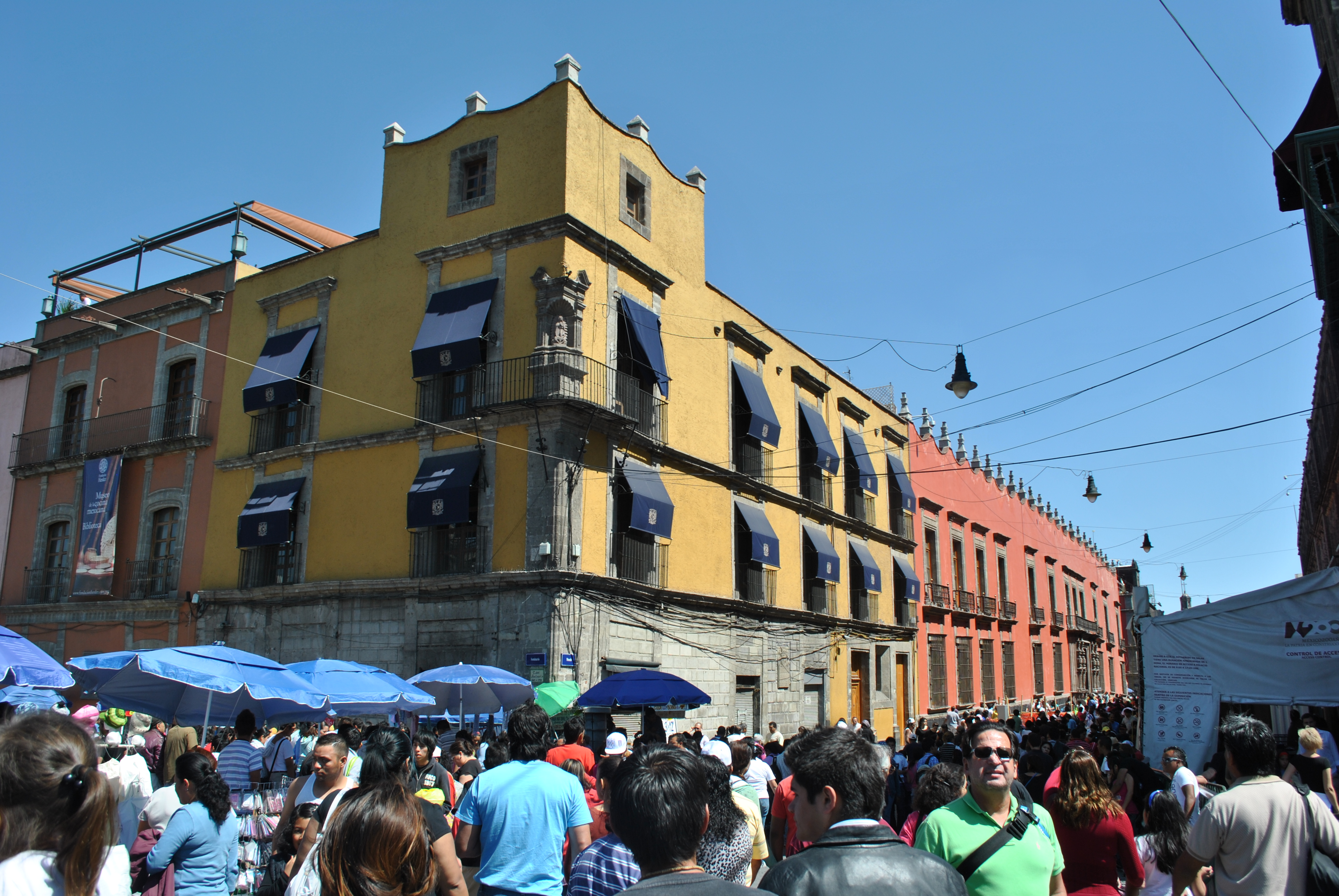 Building of the Program of Studies about the City of the UNAM, before "Cantina El Nivel", Moneda street.